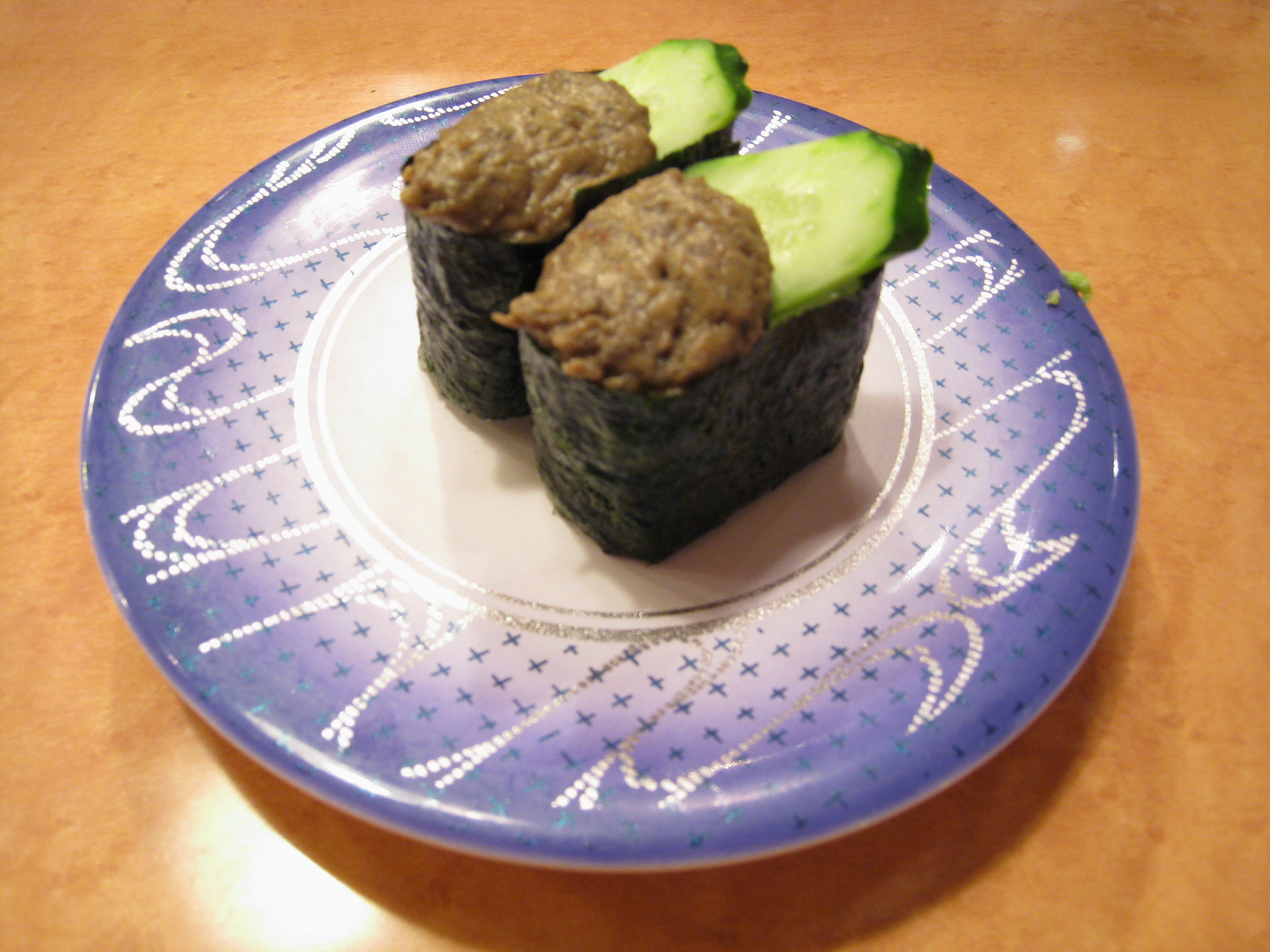 Gunkan-maki of Kanimiso (カニミソ)